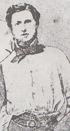 Cricketer and Australian rules football pioneer William Hammersley.